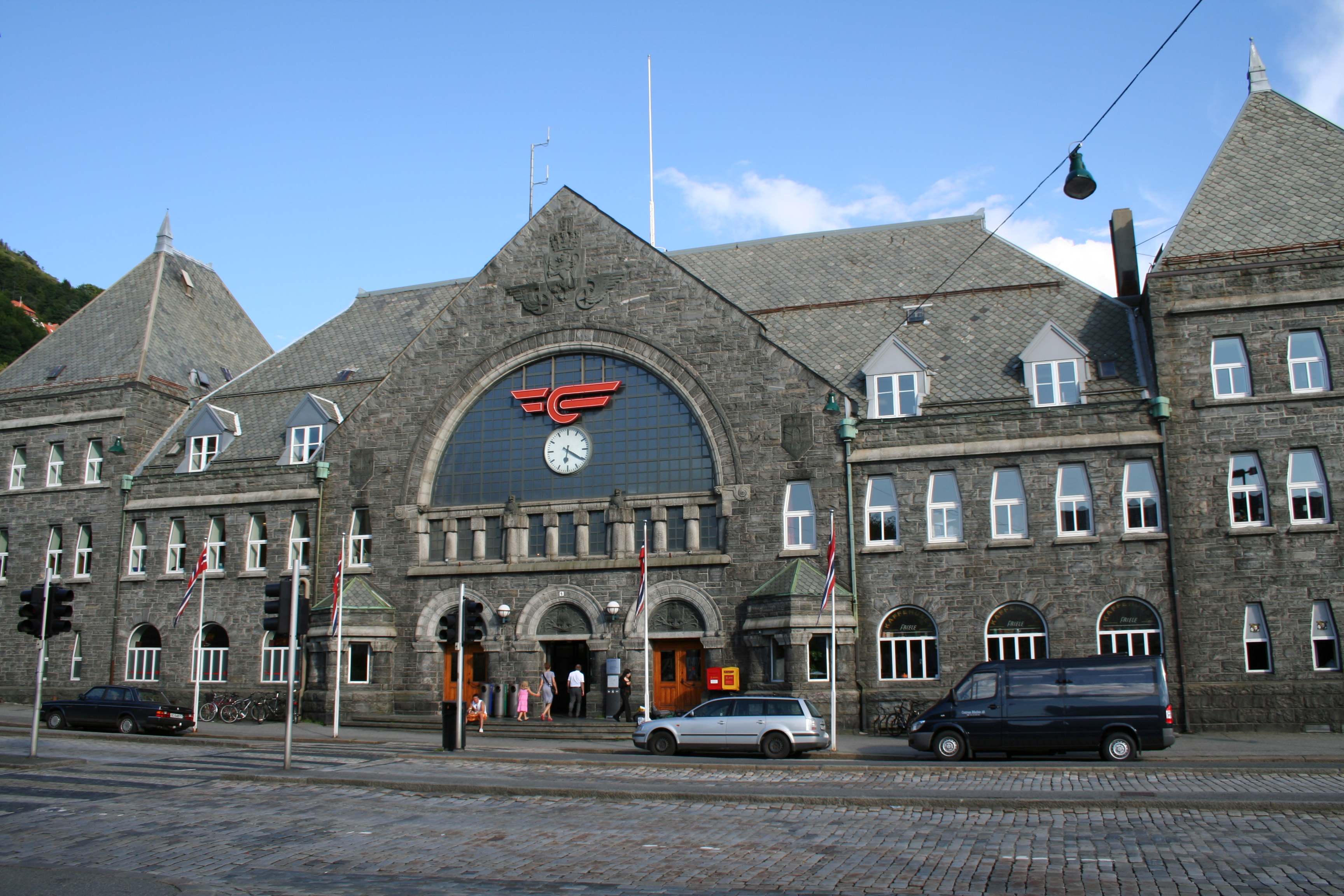 The facade of the railway station in downtown Bergen, Norway